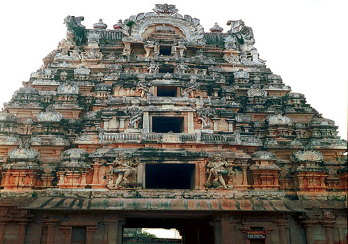 Thiruvarangulam Arangulanathar[LORD SIVA] Temple, Pudukkottai District